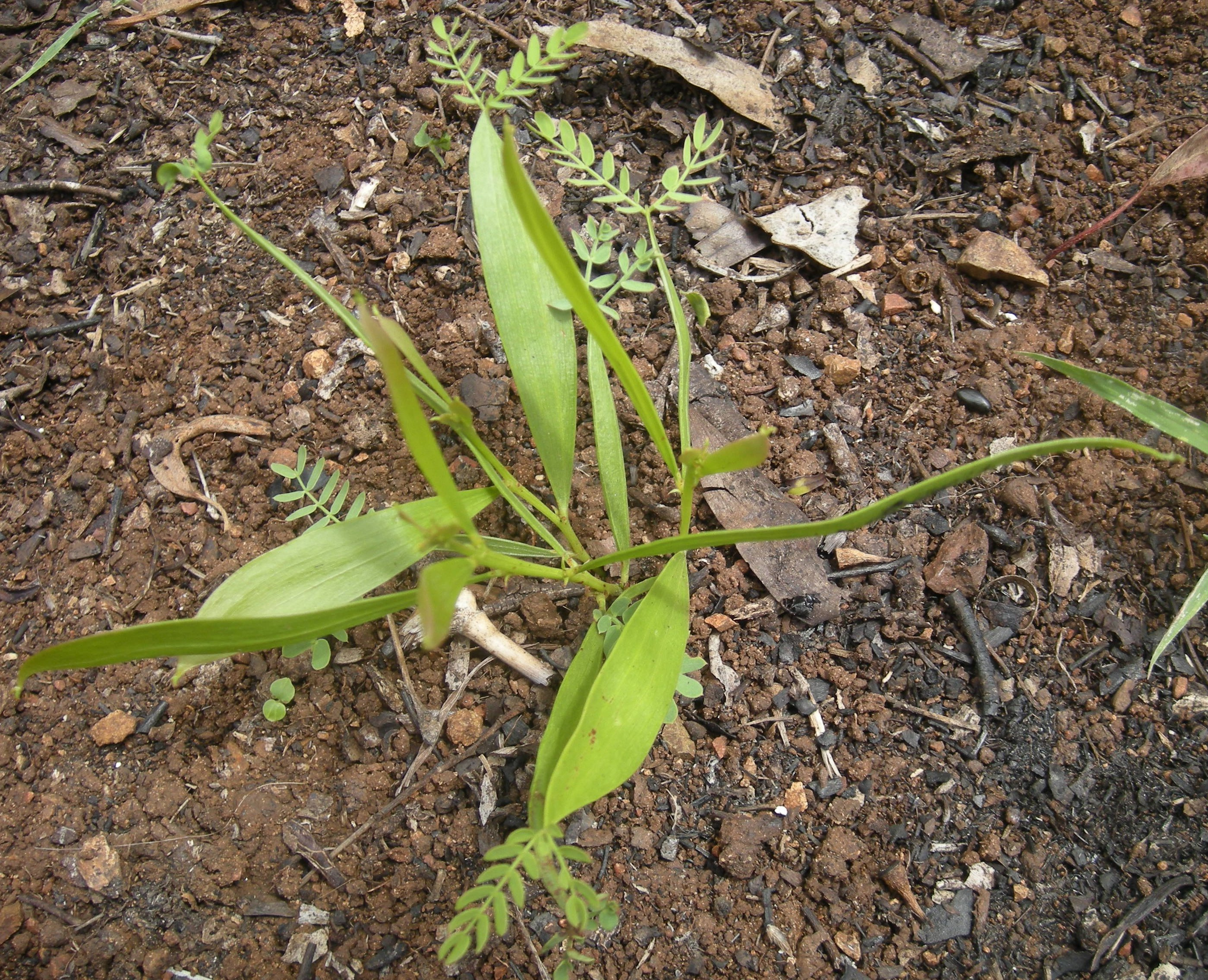 Acacia fasciculifera adventitious shoot, demonstrating the transition from pinnate leaves to phyllodes characterisitic of most Australian acacias. Mount Etna Caves National Park, Central Queensland.